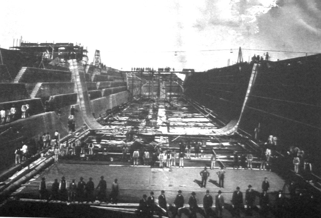 1899, Bau vom Kaiserdock I der Lloyd Werft